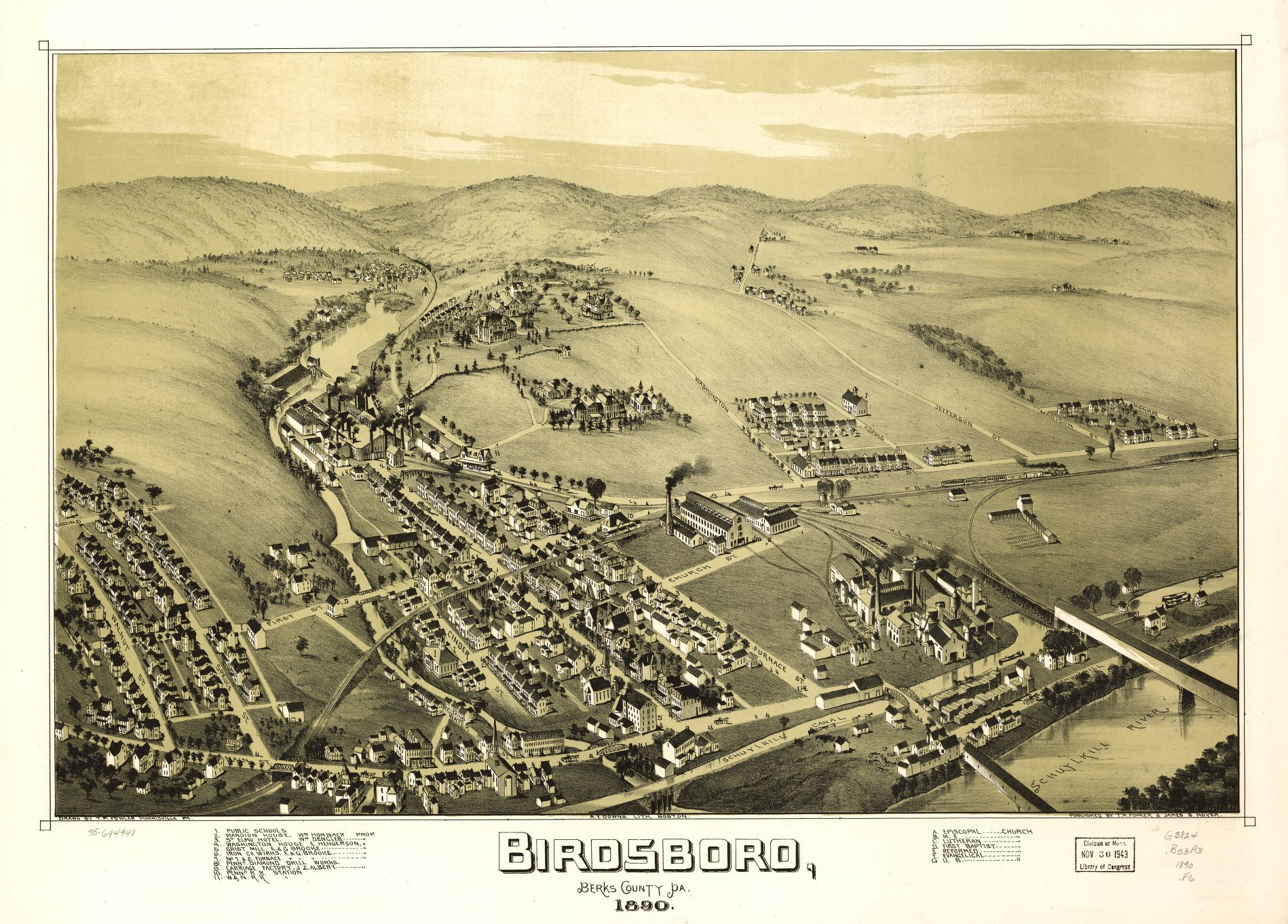 Panorama of Birdsboro Borough, Berks County, Pennsylvania.